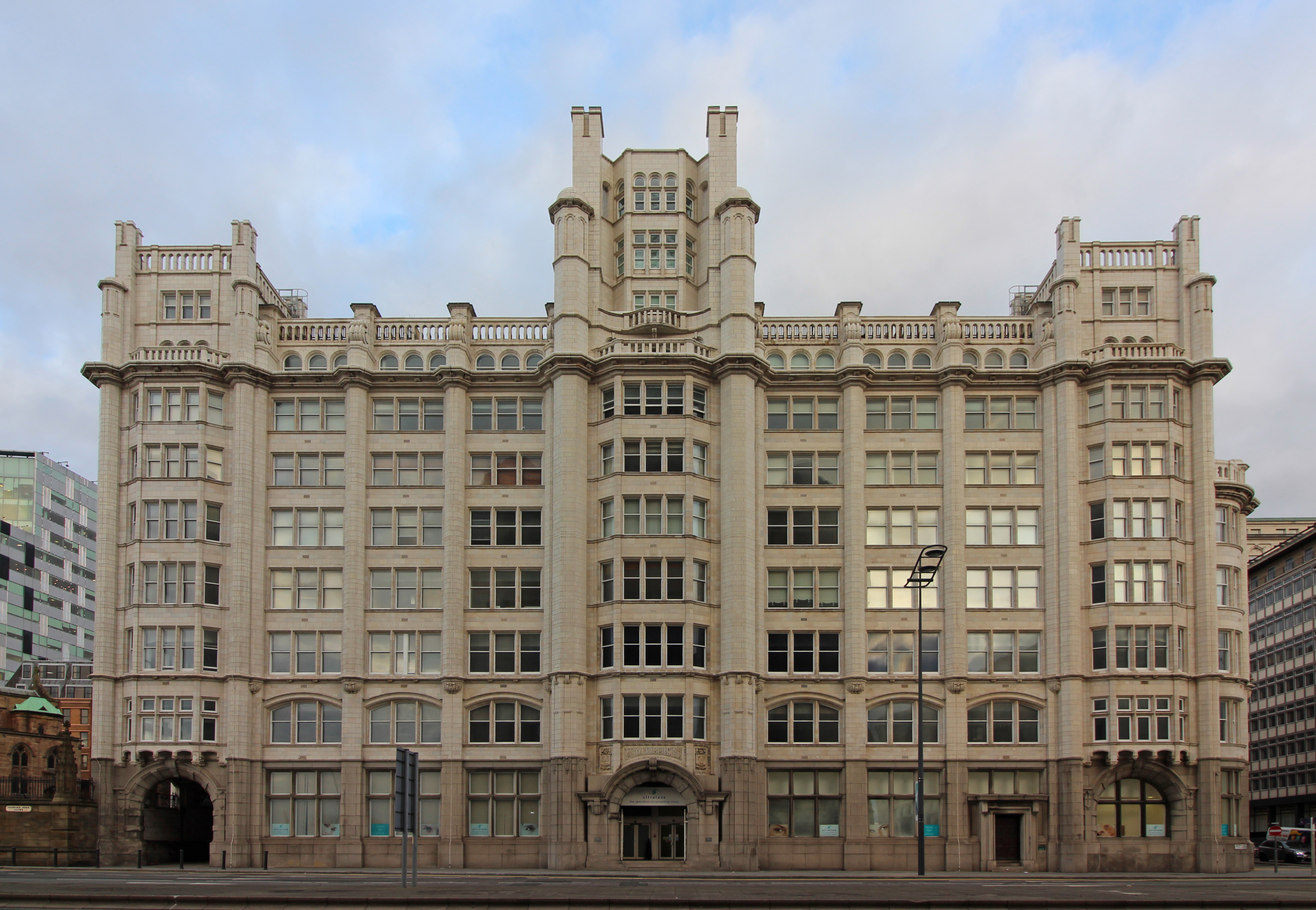 Frontage, at last unencumbered with scaffolding, from across George's Dock Gates